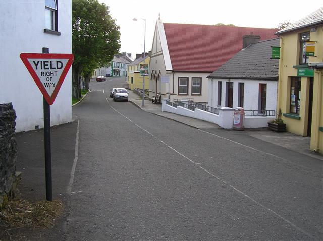 "Yield", Culdaff Looking WNW from Shore Lane